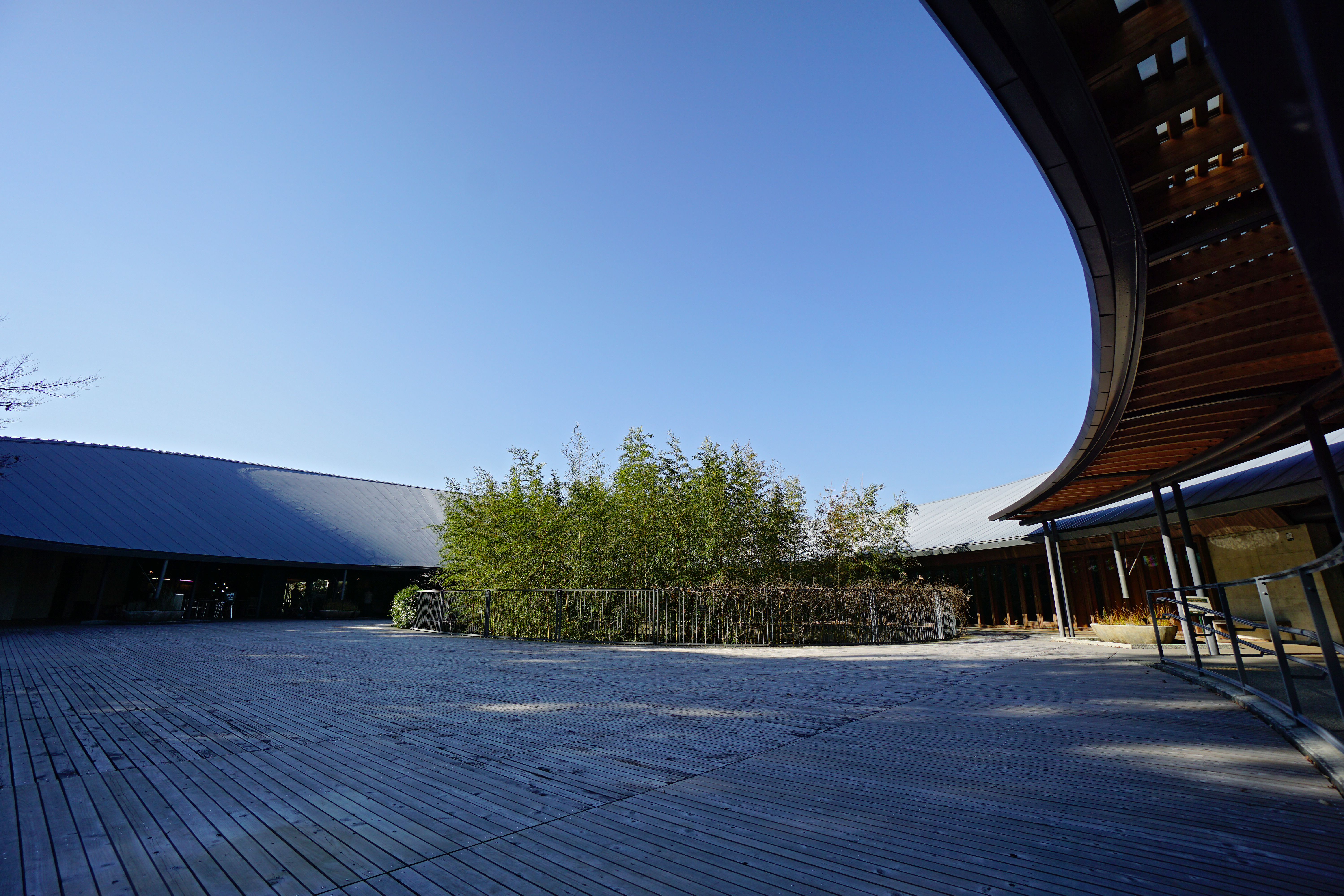 Makino Botanical Garden in Kochi City, Kochi prefecture, Japan